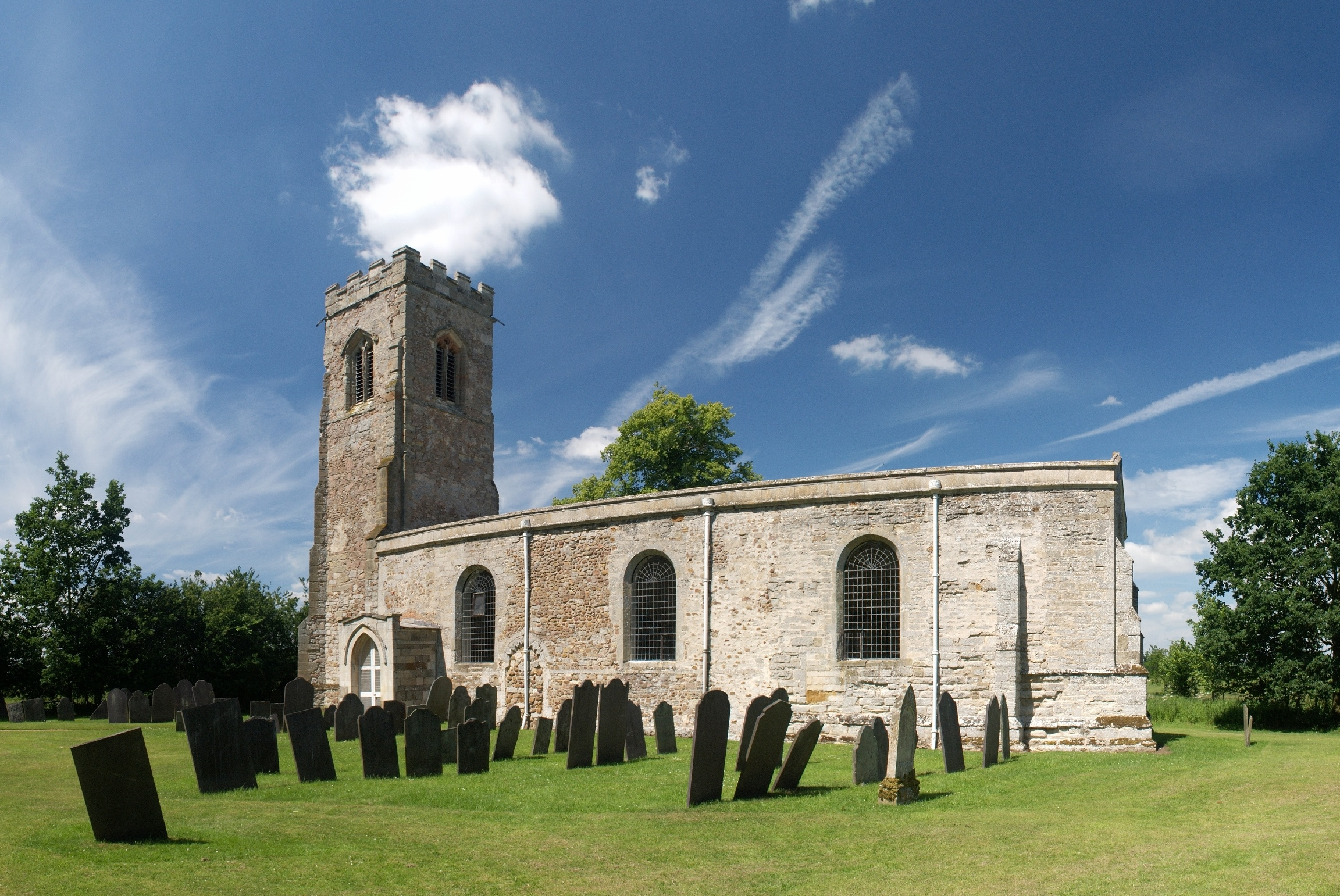 St Wistan's church, Wistow